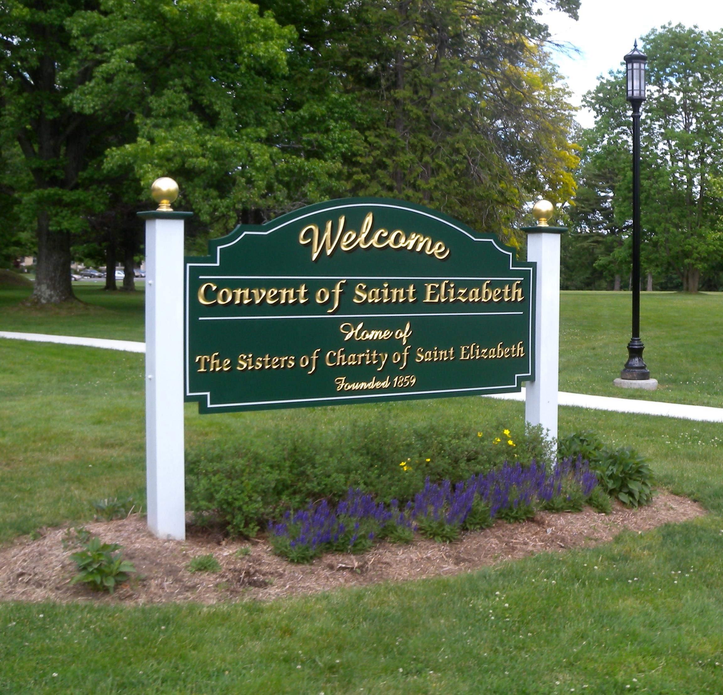 Looking east at entry sign for St Elizabeth's Convent on a partly cloudy afternoon.